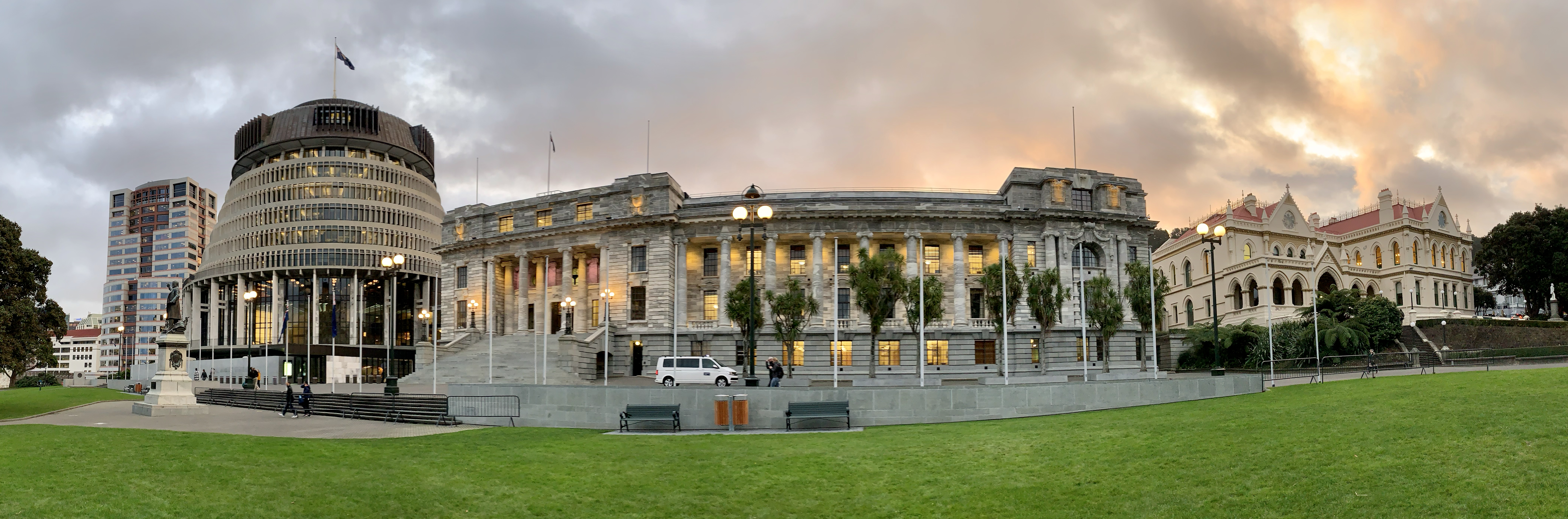 This is a photograph of the New Zealand Parliament Buildings, seen from Parliament Lawn in Wellington. From left to right, the buildings are: Bowen House, The Beehive (the Executive Wing of the New Zealand Parliament), Parliament House and the Parliamentary Library.